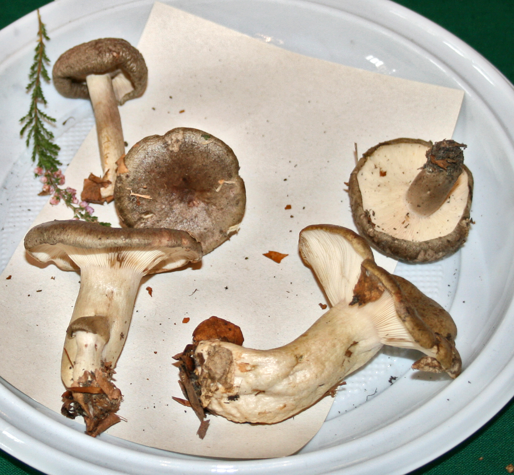 Lactarius blennius on Prague international mushroom exhibition 2008, Czech Republic